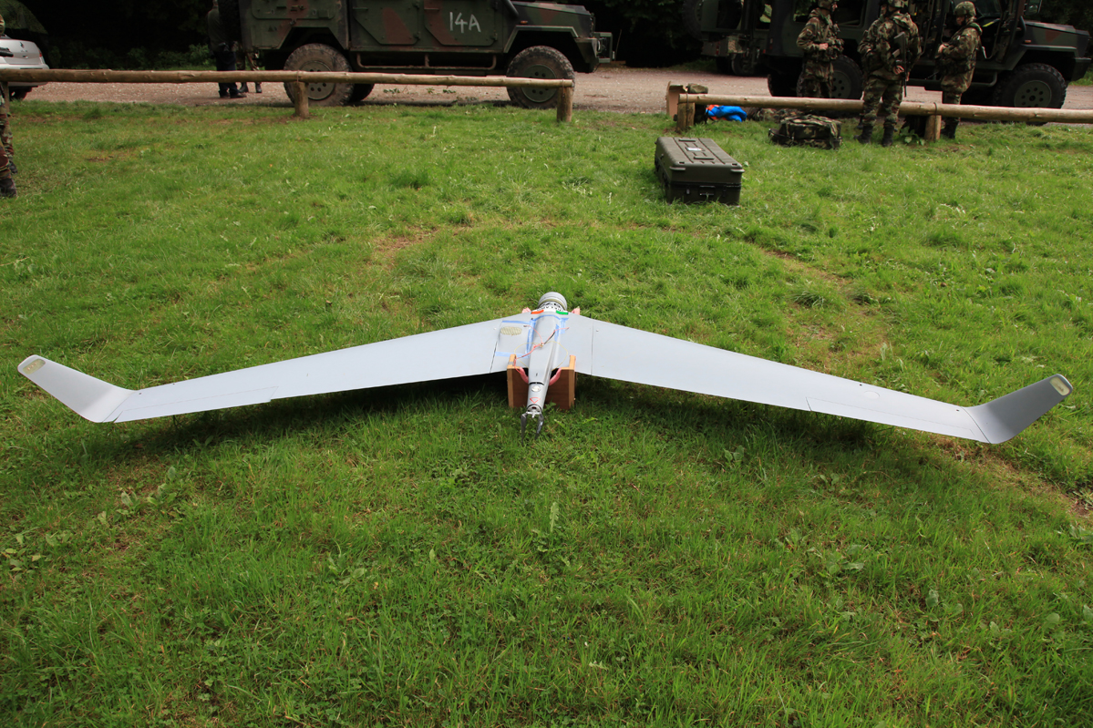 Nordic Battle Group ISTAR Training recently took place in Kilworth, including a visit from the Nordic Battle Group Force Cmdr and ISTAR Cmdr from Sweden. Orbiter UAV by Aeronautics shown.